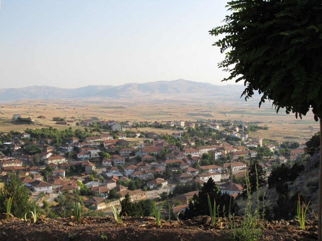 Afyonkarahisar, Sandıklı, Ballık Köyü Avdaz Dede Mesire Alanı